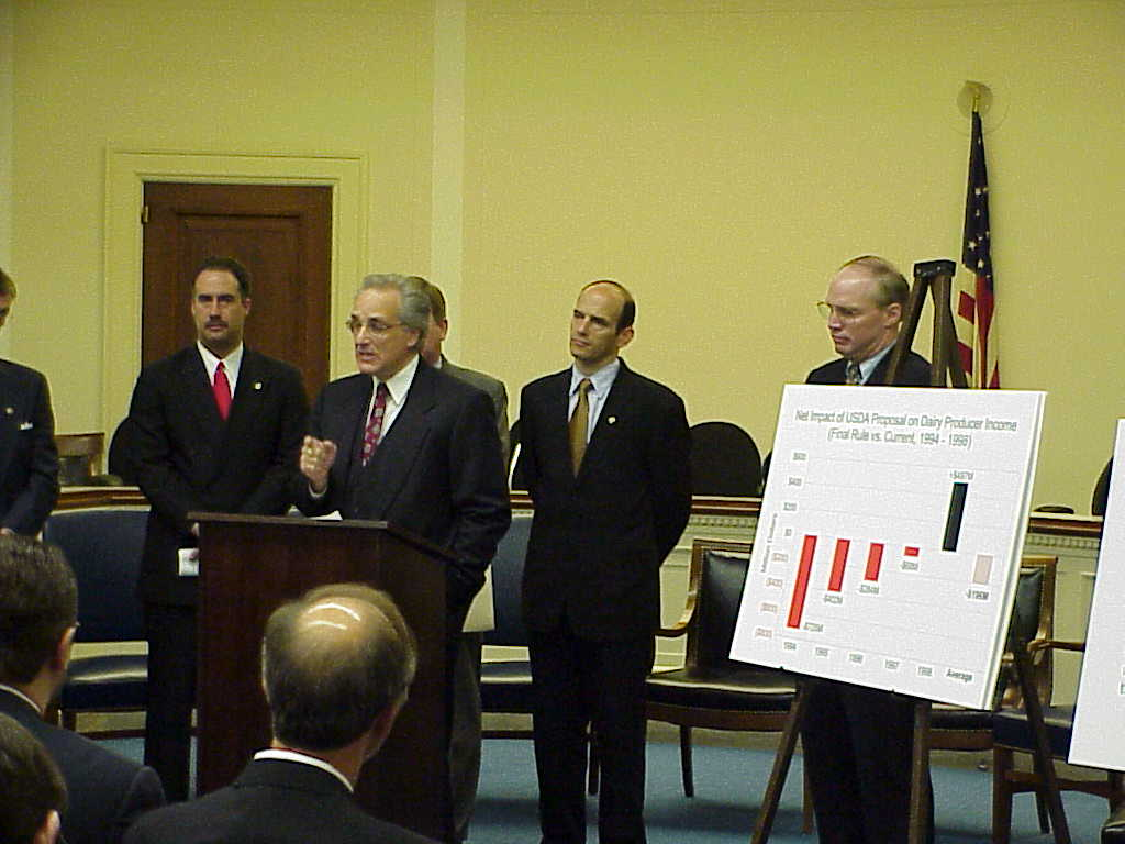 Ron Klink speaking about a United States Department of Agriculture proposal's impact on the milk industry. Also, Tim Holden.